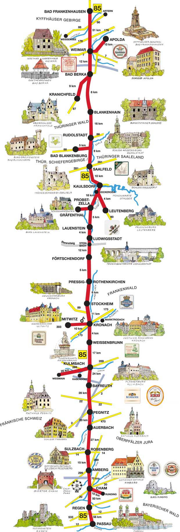 Illustrated "map" of the Bier- und Burgenstraße in Germany